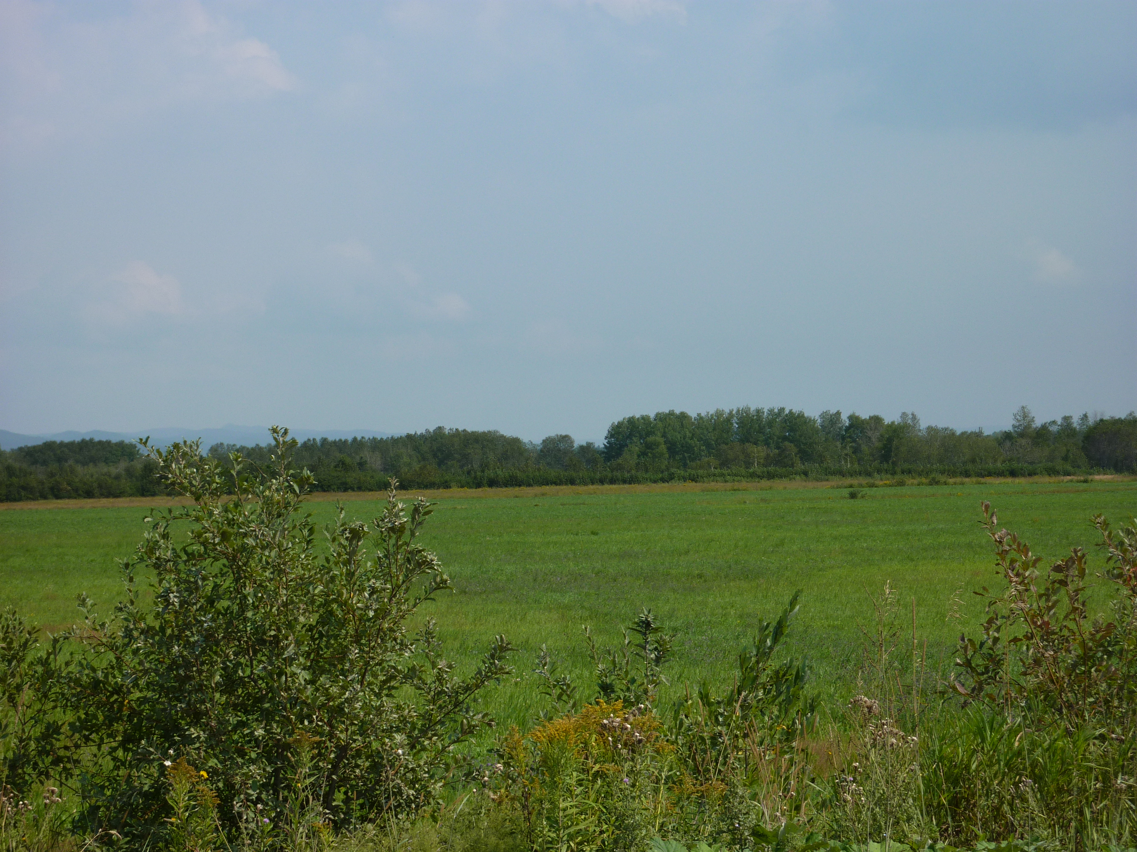 Field at Sayabec, Qc